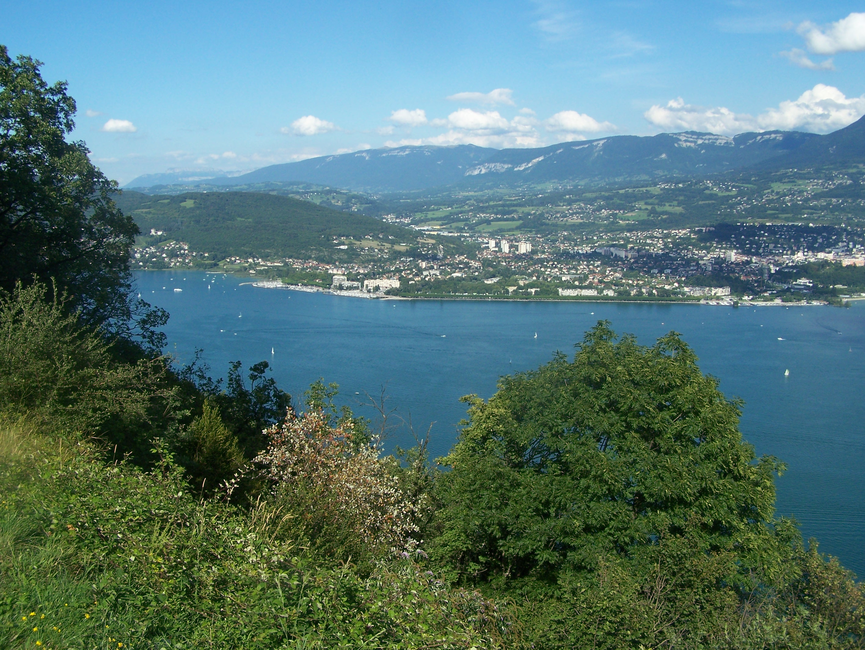 Landscape of the lake of Bourget and city of Aix-les-Bains in Savoie, France.